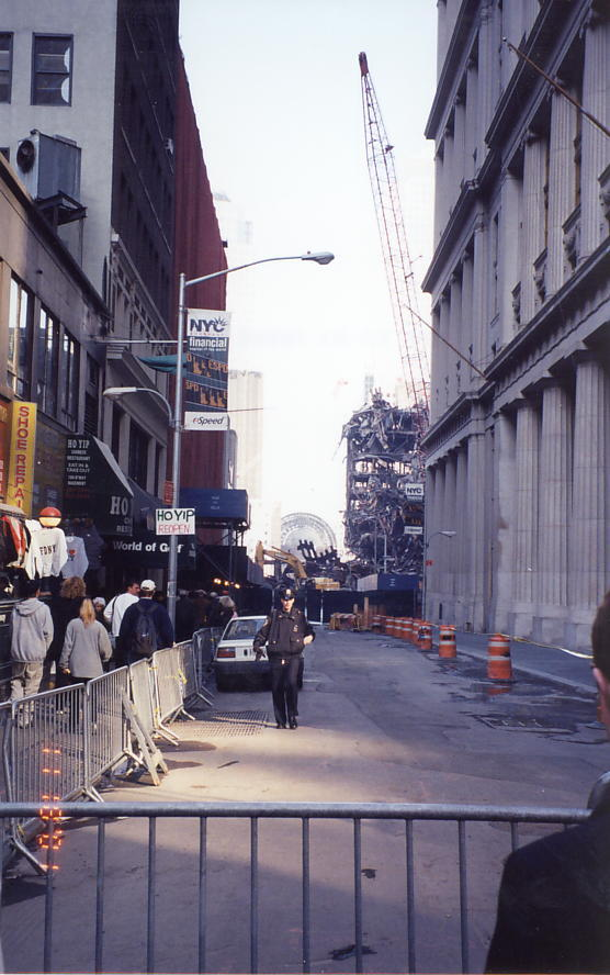 Street looking toward Ground Zero site in New York two months after 9/11